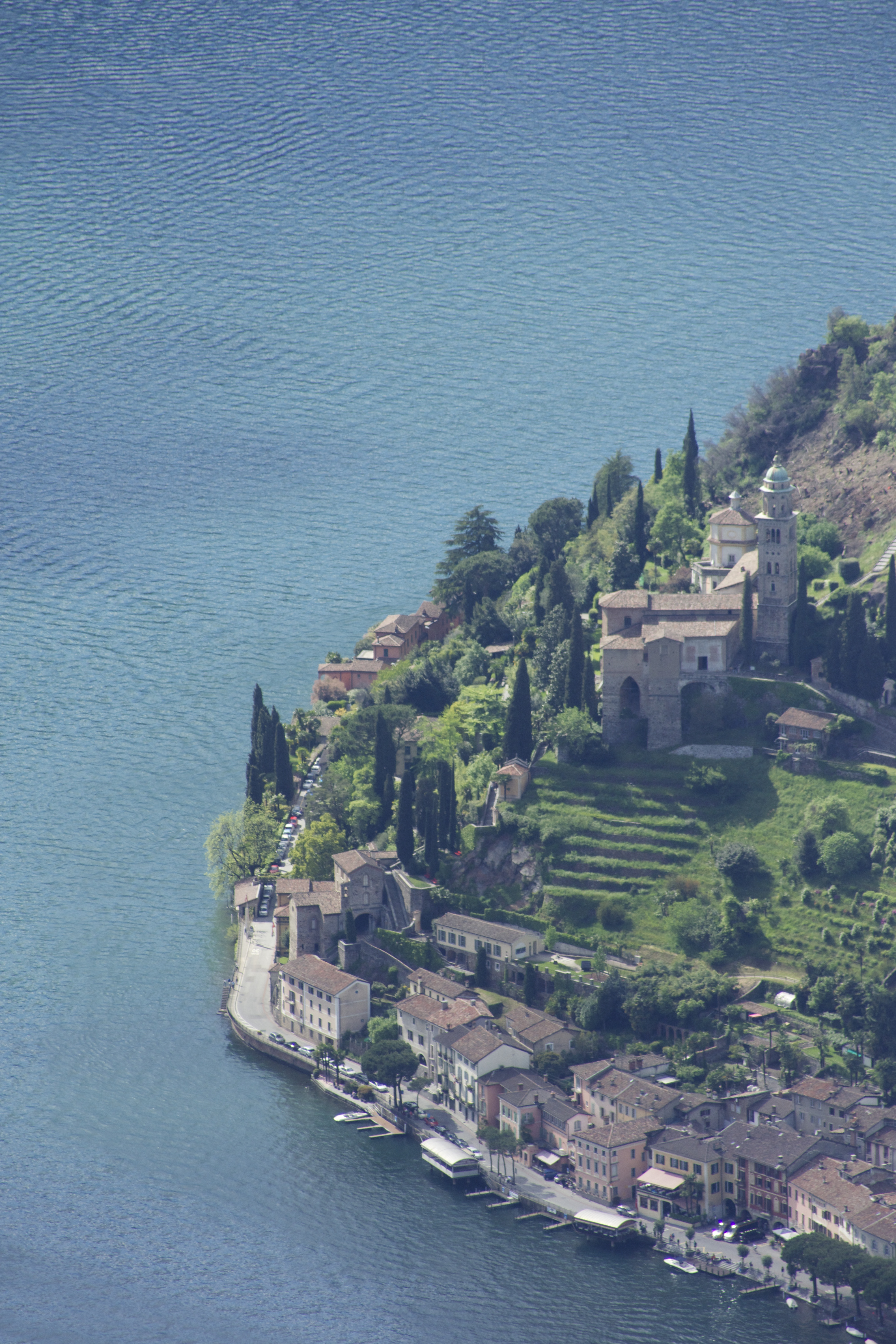 exterior view: Maria del Sasso Church, Morcote near Lugano in Tessin, Switzerland